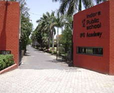 Main Gate Institute Of Engineering & Science IPS Academy